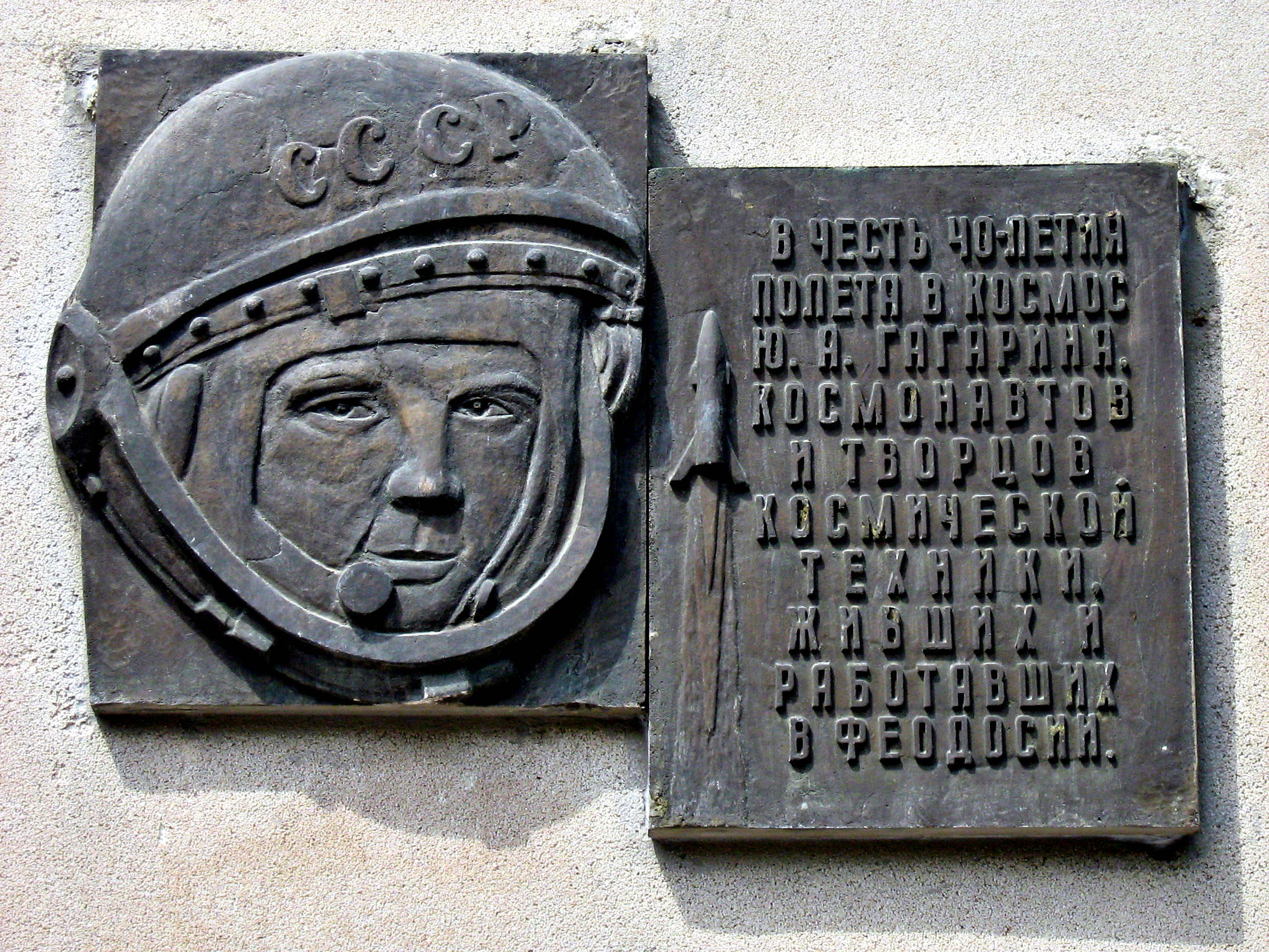 Memory_desk._Theodosia. Crimea.